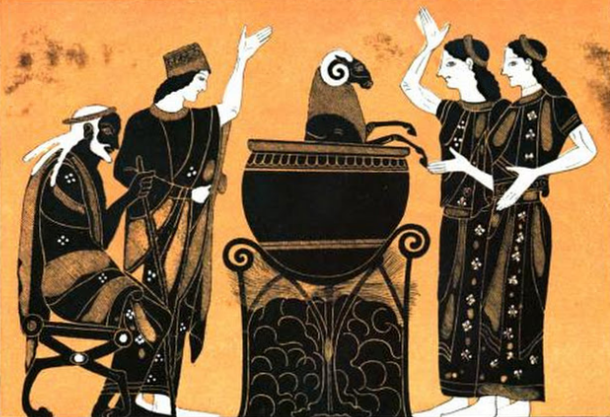 Sorcery of Medea